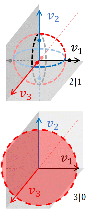 0 and phase space is a sphere. If the split is 2